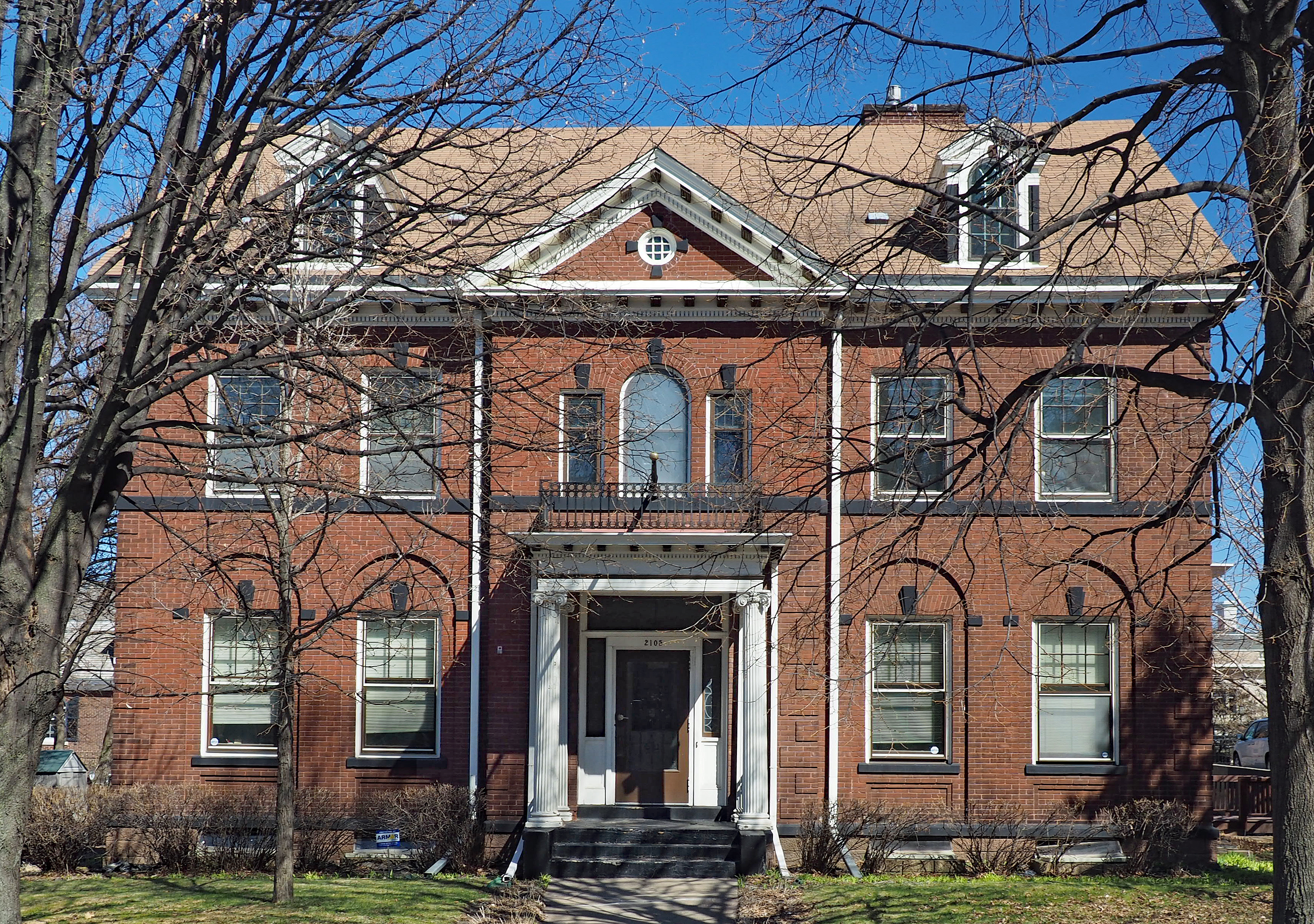 Caroline Crosby House, 2105 1st Ave S, Minneapolis, Minnesota, USA. Viewed from the west. A contributing property to the Washburn-Fair Oaks Mansion District.